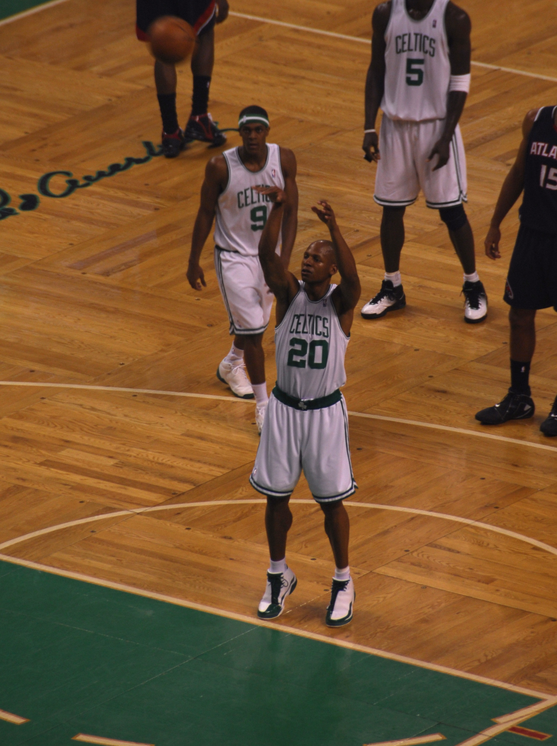 Ray Allen shooting a freethrow